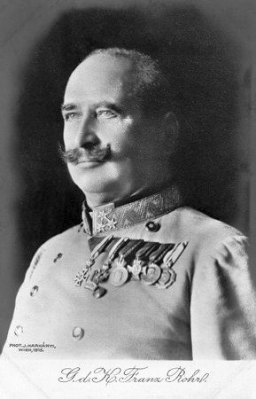 Ferenc Rohr Baron of Denta, 1854-1927, Field Marshal of Austria-Hungary. The photo shows him in rank of General of Cavalry, 1911